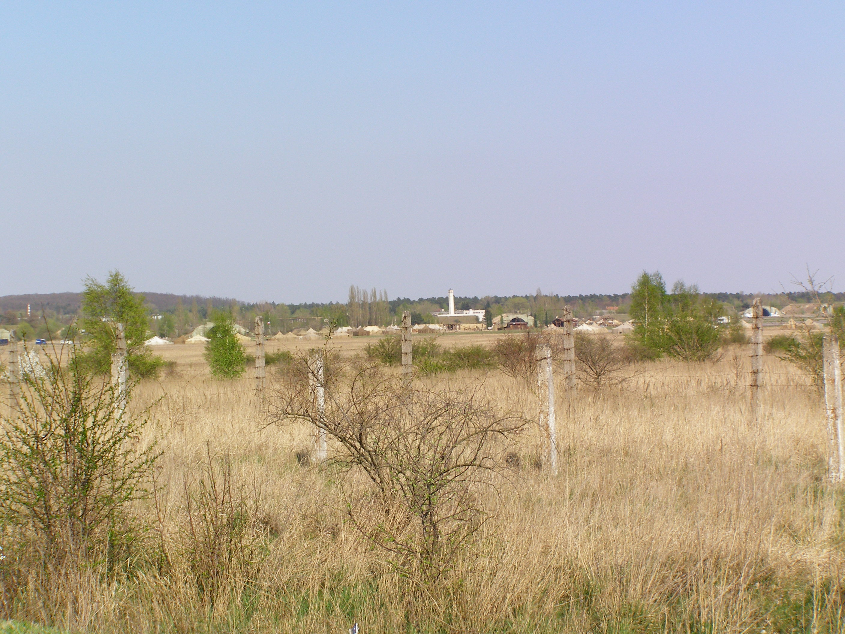 Milovice - airport